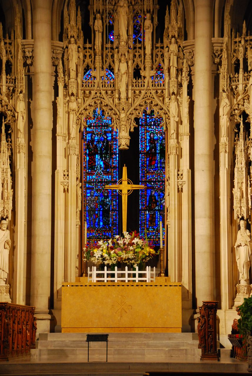 Altar of Riverside Church, New York City